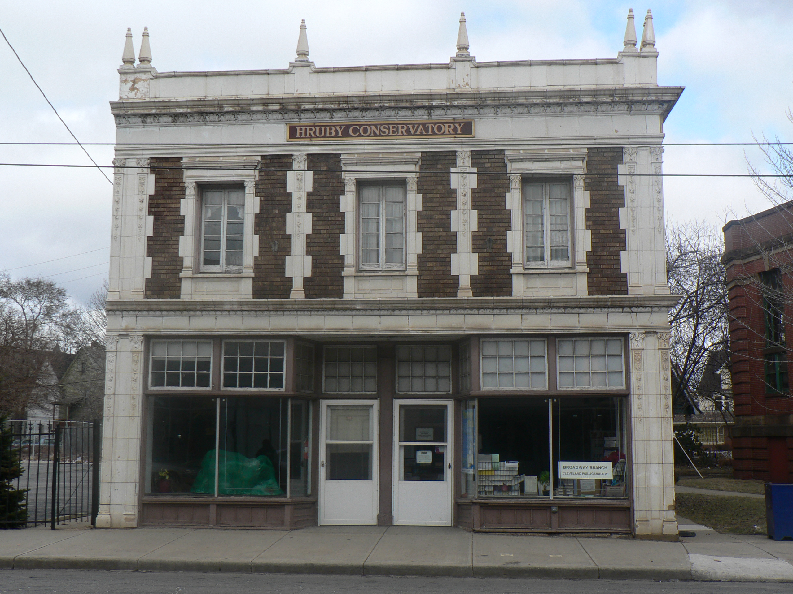 The Hruby Conservatory of Music in Cleveland's Slavic Village neighborhood